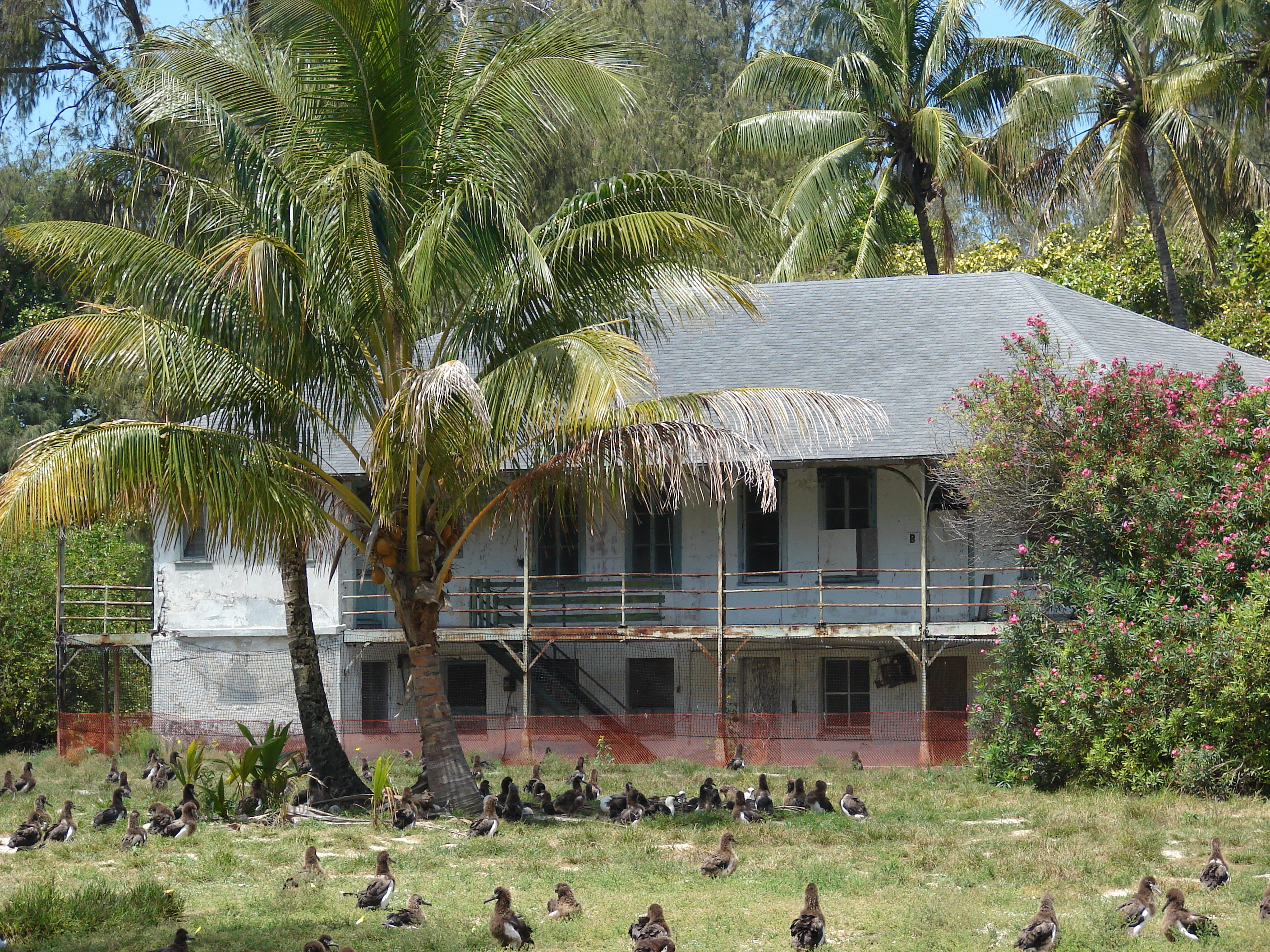 Cable station building on Midway (building #643) with cocos nucifera (habit with saplings and Laysan albatross). Location: Midway Atoll, Cable Company buildings Sand Island